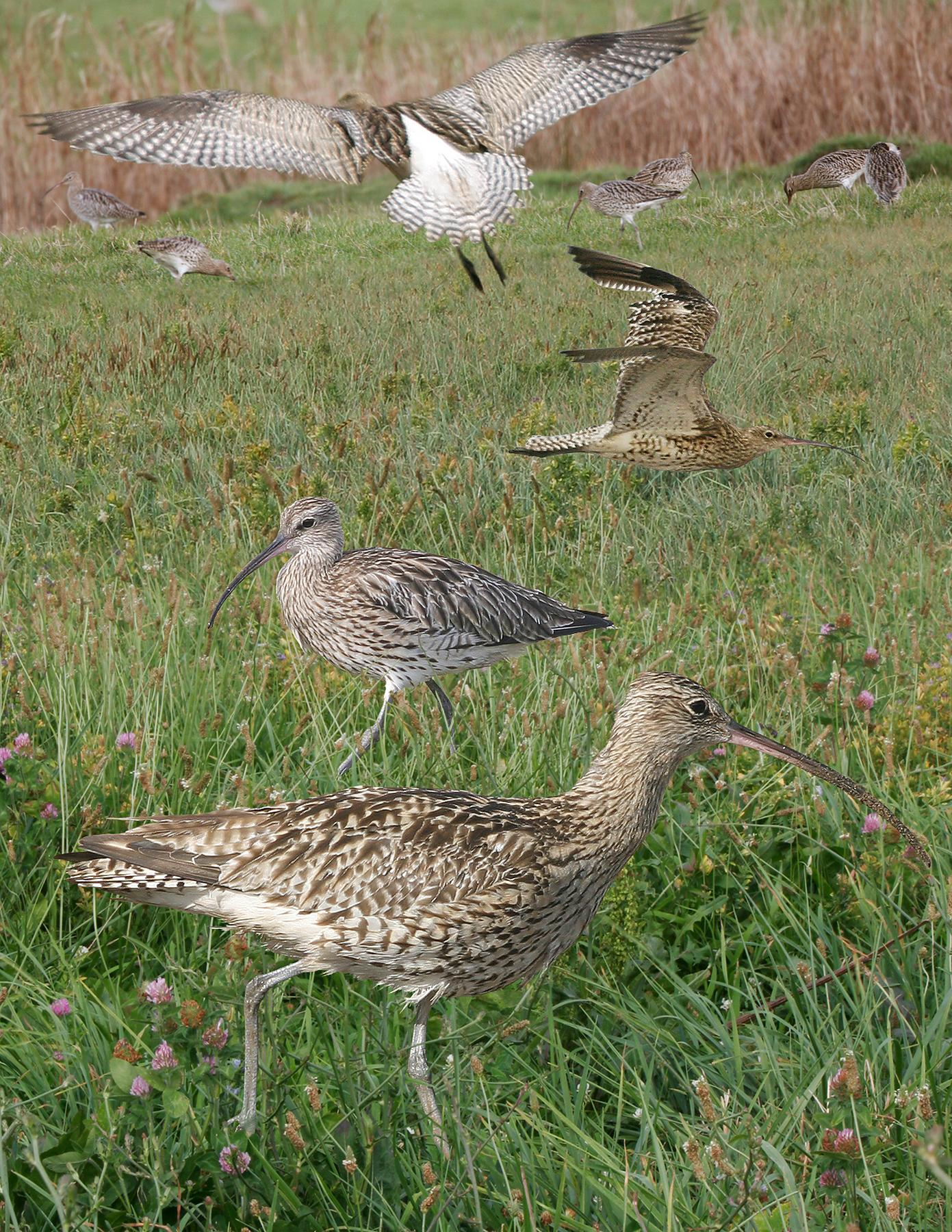 Eurasian Curlew From The Crossley ID Guide Eastern Birds